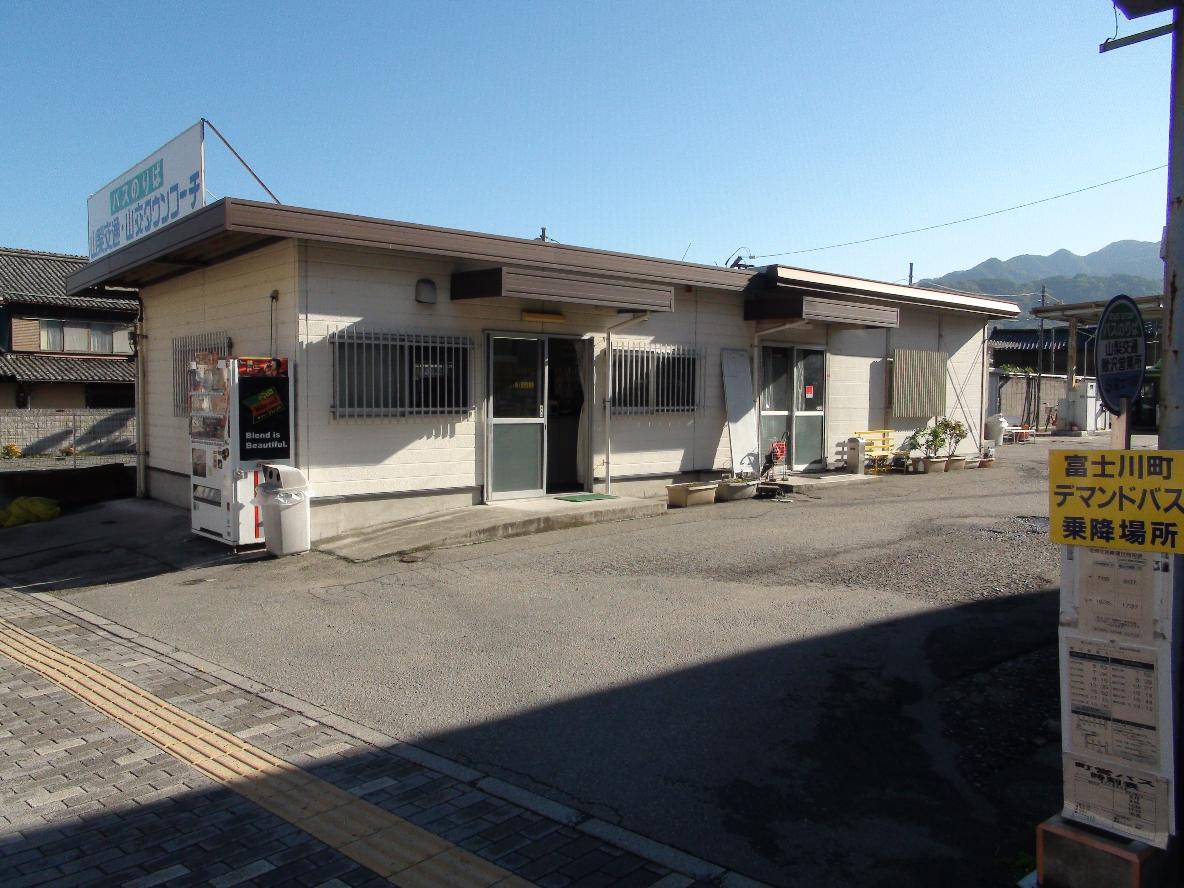 Yamanashi Kotsu and Yamako Town Coach Kajikazawa Depot